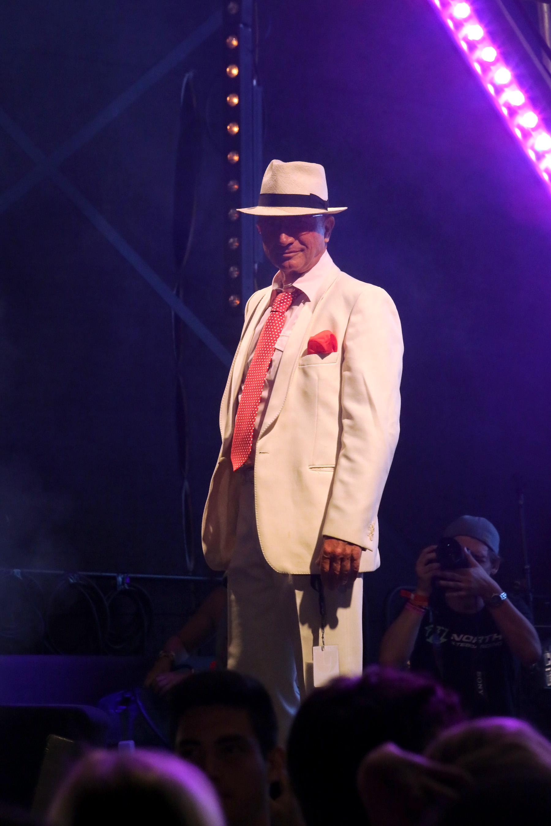 Joyce Muniz and Louie Austen - Donauinselfest 2013 in Vienna, Austria